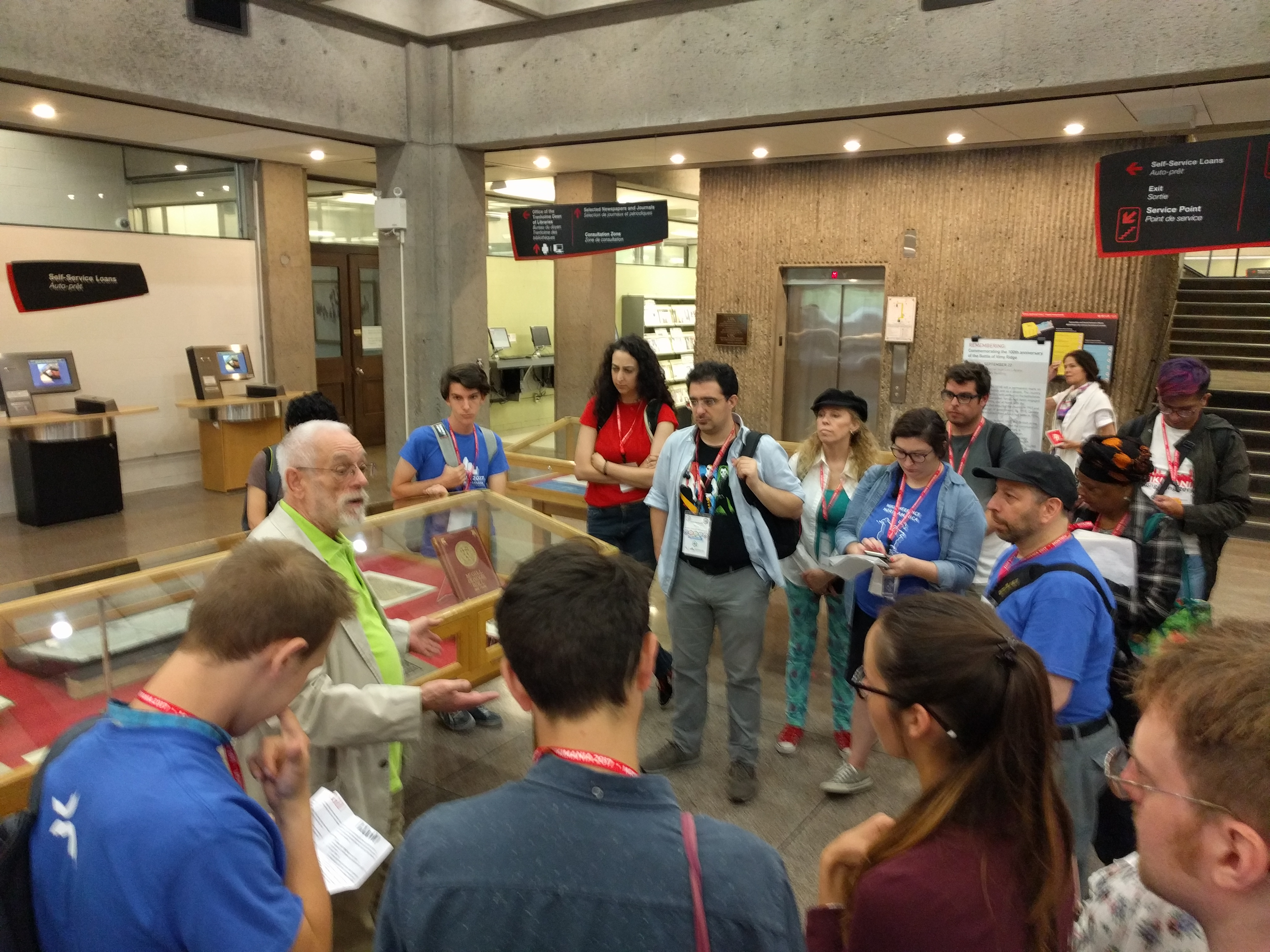 WikiConference North America 2017 attendees in the Canadian Architecture Collection tour at McGill University's McLennan Library Building.